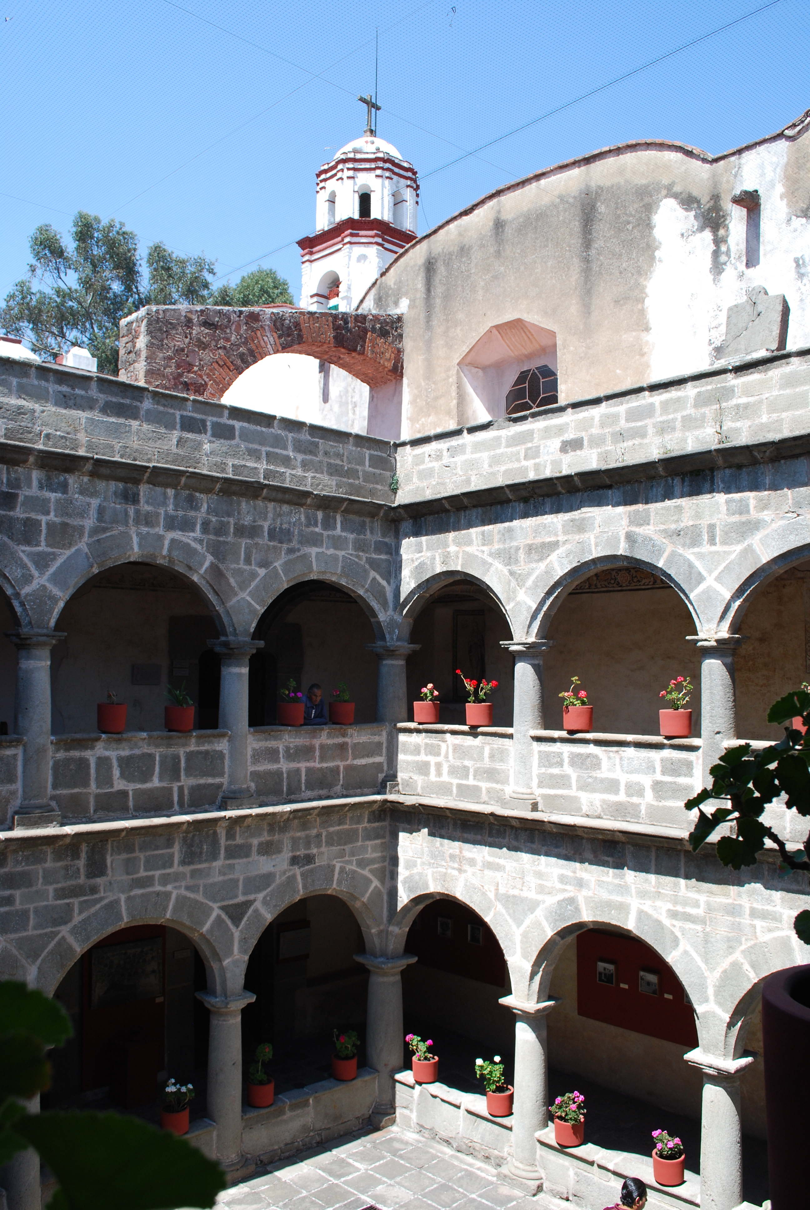 Upper cloister and bell tower of the old monastery of Zinacantepec, Mexico State